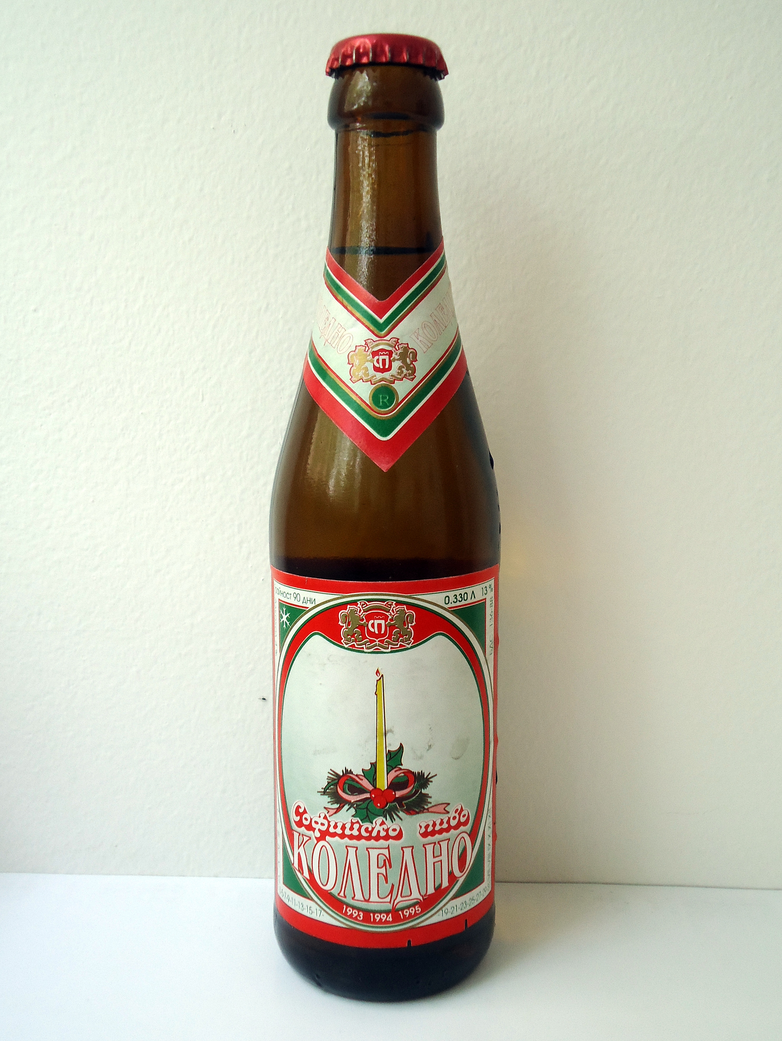 Sofiisko Christmas beer